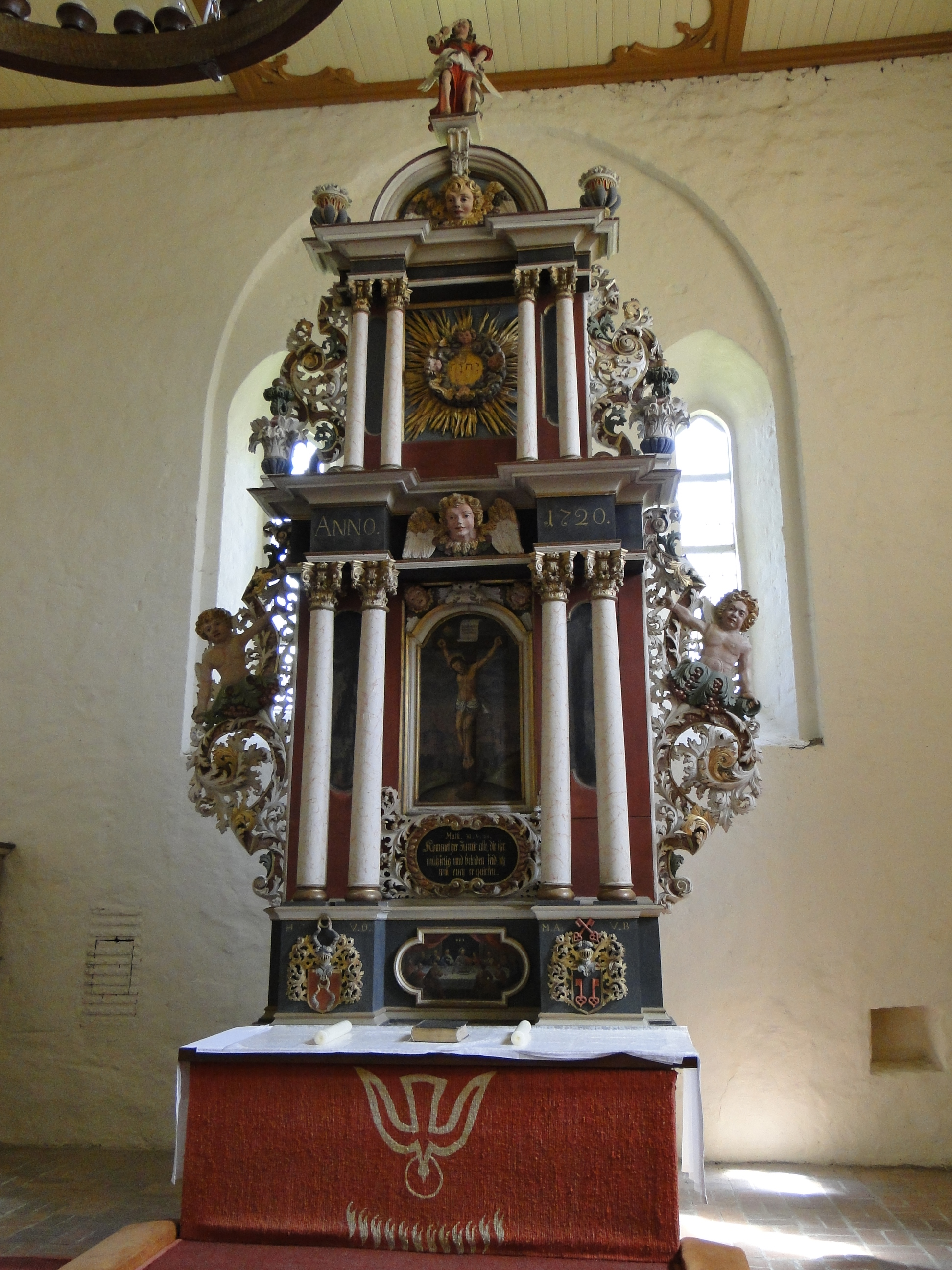 Church in Helpt, district Mecklenburg-Strelitz, Mecklenburg-Vorpommern, Germany